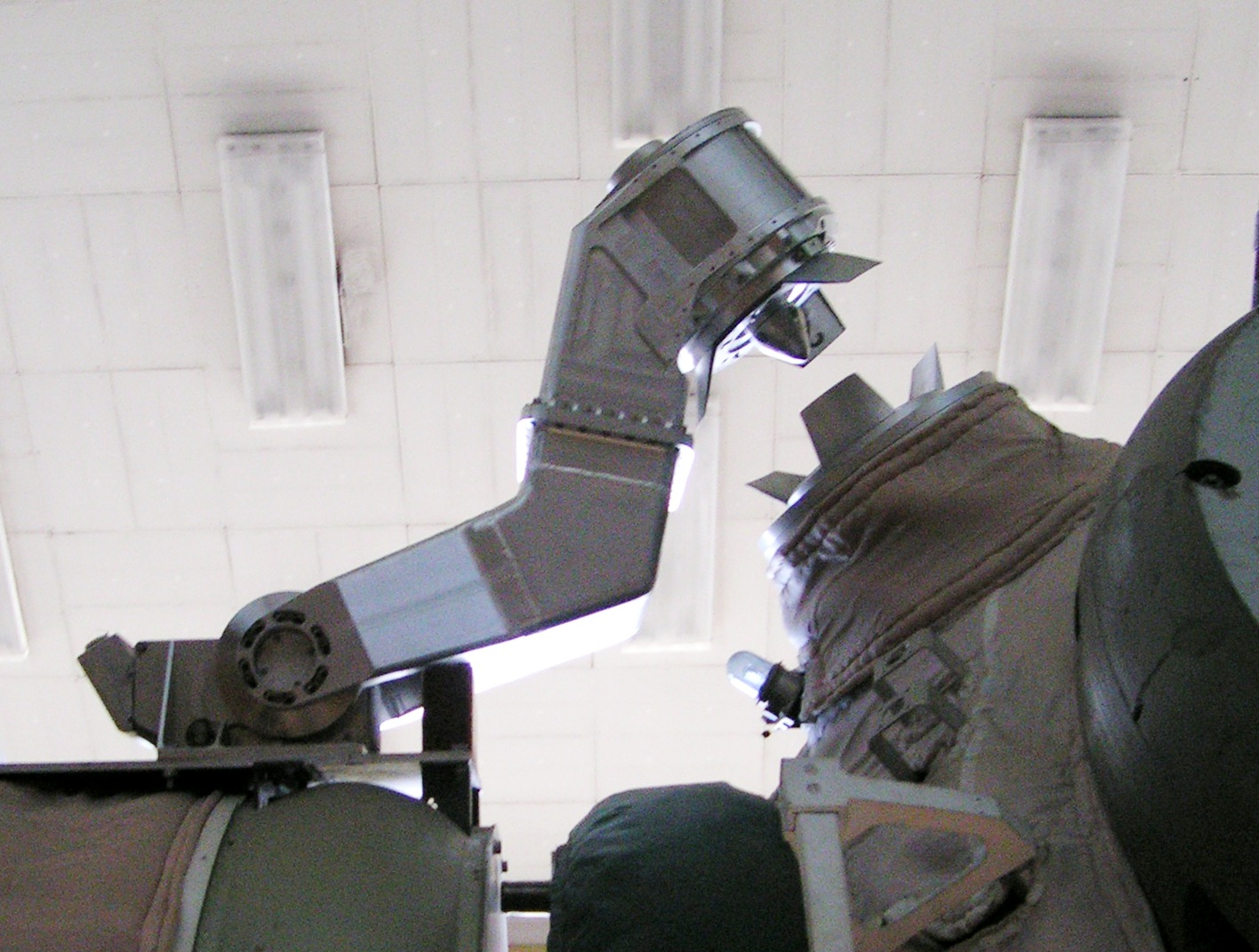 "Kvant-2 docking manipulator detail" located at the Gagarin Cosmonaut Training Center's Mir training hall in Star City, Russia.